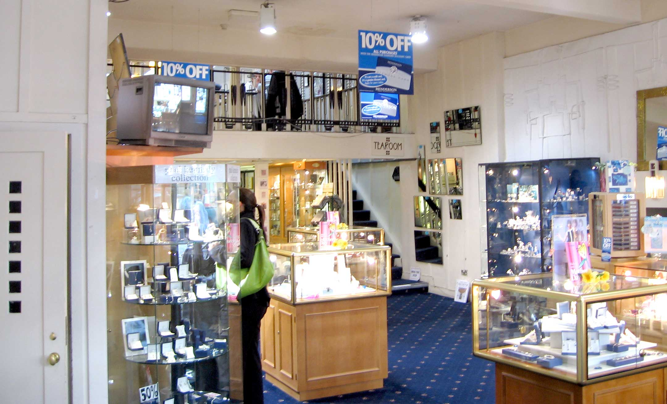 The Willow Tearooms, Glasgow designed by Charles Rennie Mackintosh in collaboration with Margaret MacDonald for Catherine Cranston. The Front Saloon, looking in from the entrance towards the grille giving a view into The Gallery, and the stair up. photograph taken on 9 March 2006 by User:Dave souza. Any re-use to contain this licence notice and to attribute the work to User:Dave souza at Wikipedia.